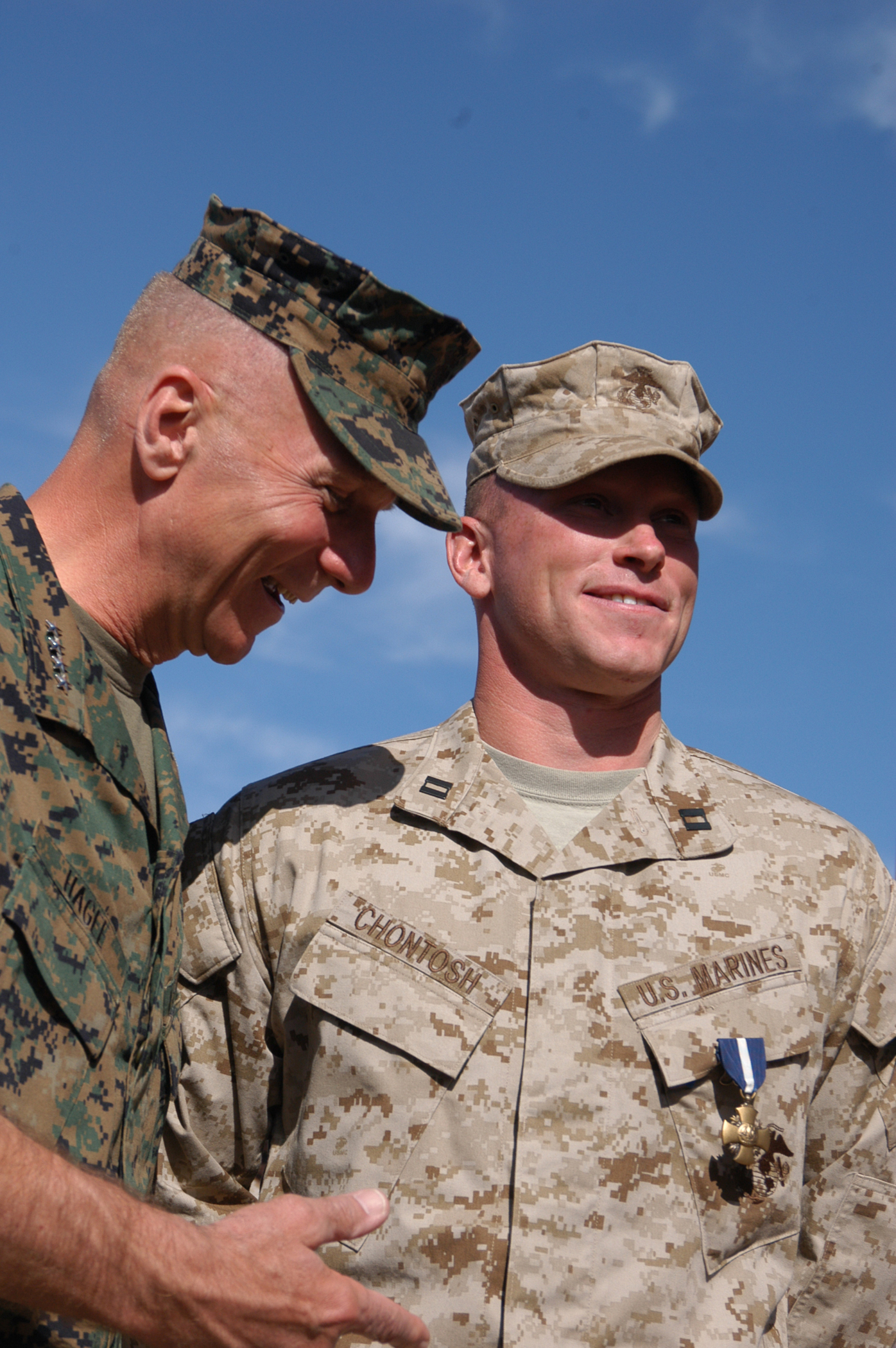 Marine Capt. Brian R. Chontosh received the Navy Cross Medal from the Commandant of the United States Marine Corps, Gen. Michael W. Hagee, during an awards ceremony Thursday at Marine Corps Air Ground Combat Training Center, Twentynine Palms, Calif.